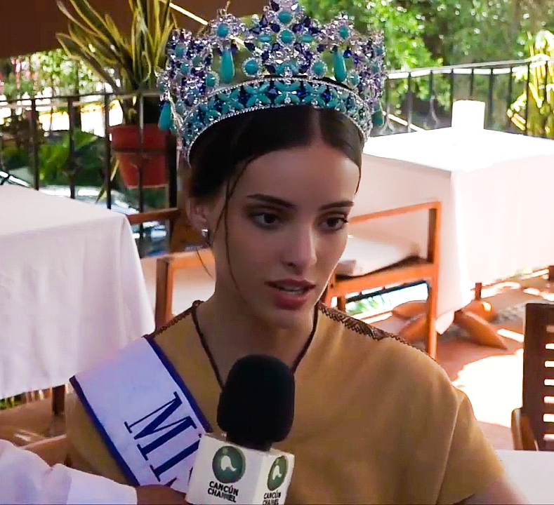 Miss World 2018, Vanessa Ponce.